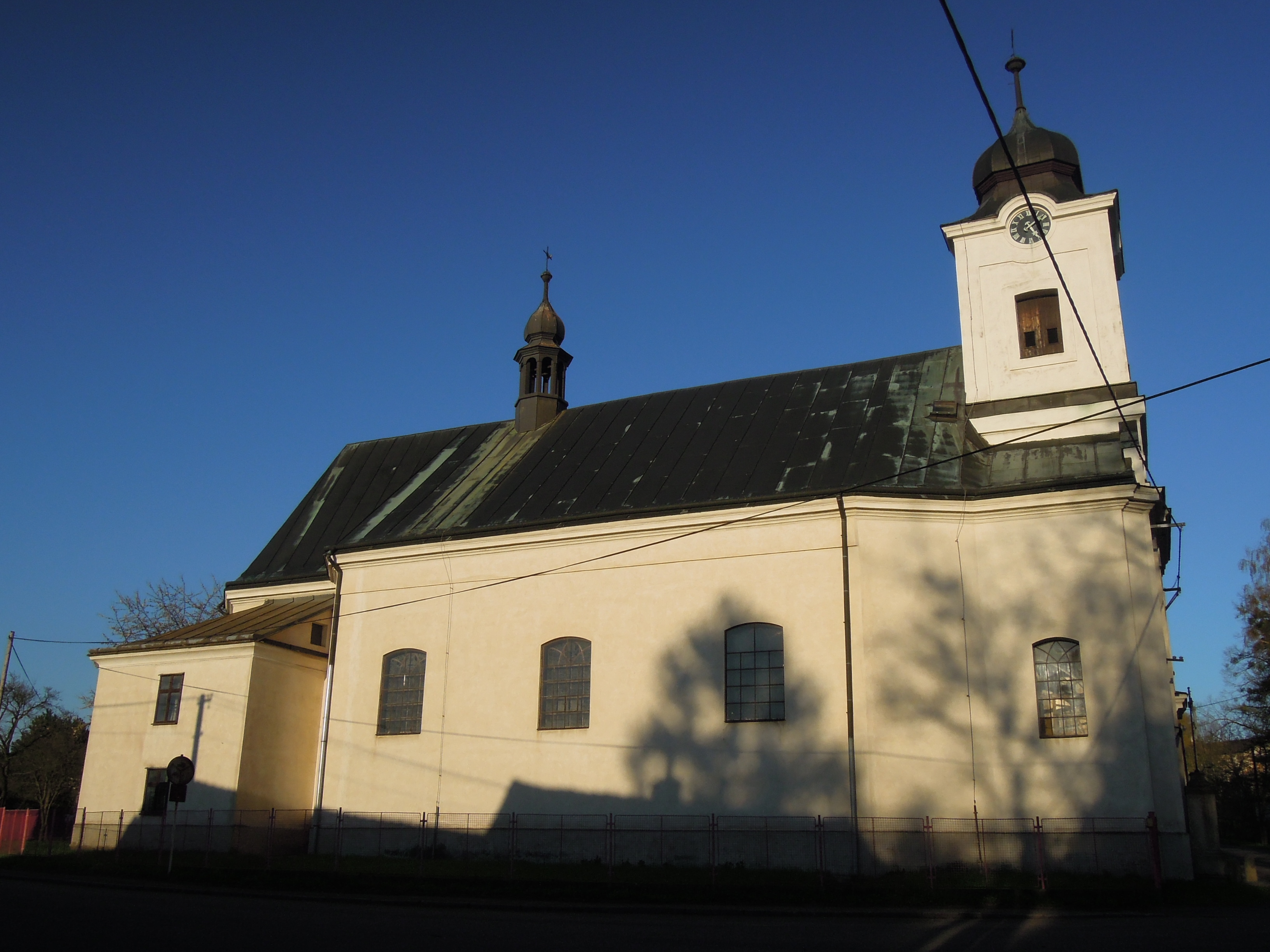 Church in Choryně, Vsetín District, Zlín Region, Czech Republic